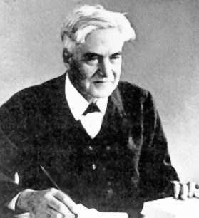 Robert Thorburn Ayton Innes (1861-1933, Scottish-South African astronomer